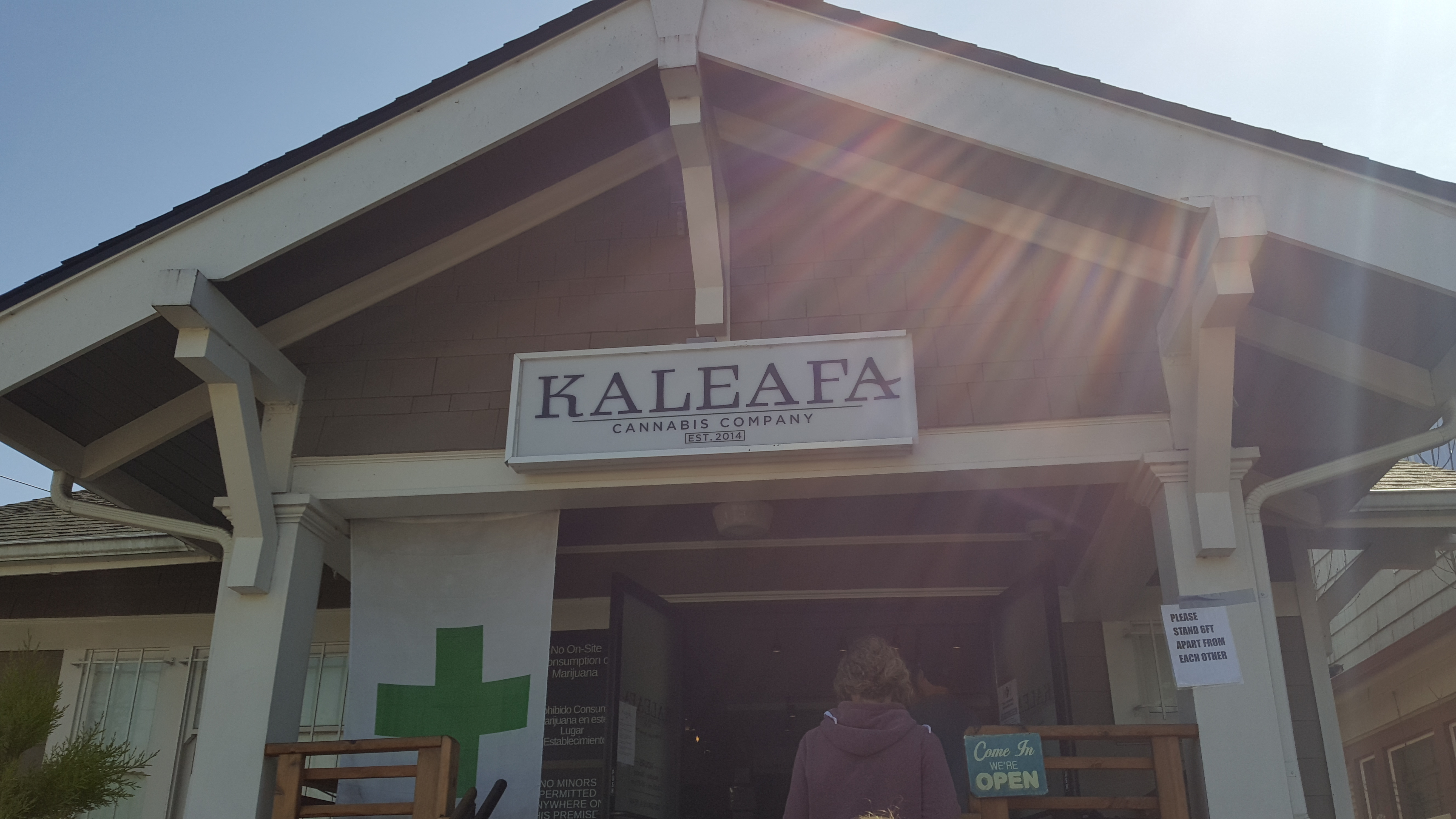 The cannabis dispensary Kaleafa in southeast Portland, Oregon's Woodstock neighborhood, during the 2020 coronavirus pandemic